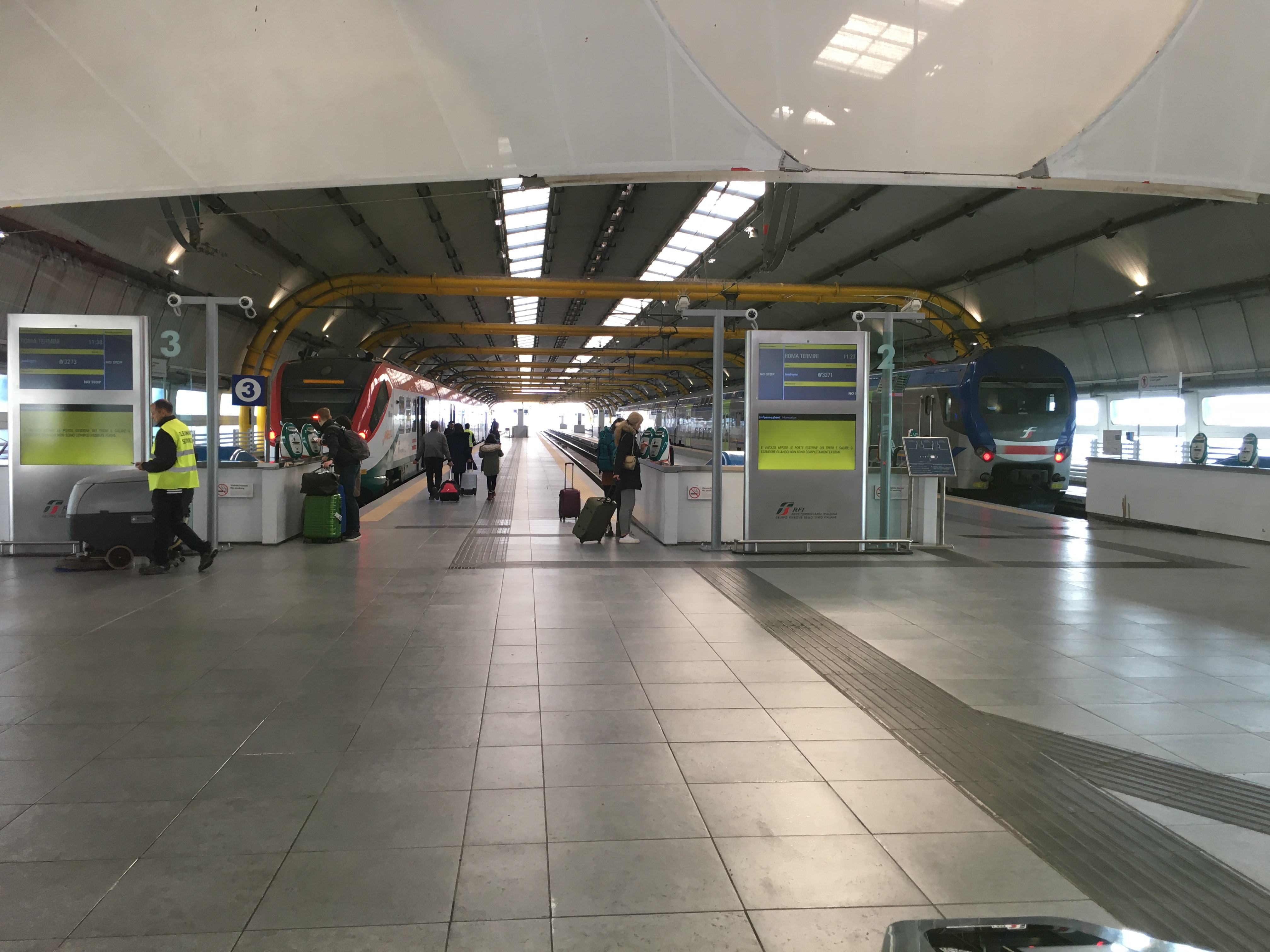 Left: Leonardo Express train Right: Rome–Fiumicino railway train